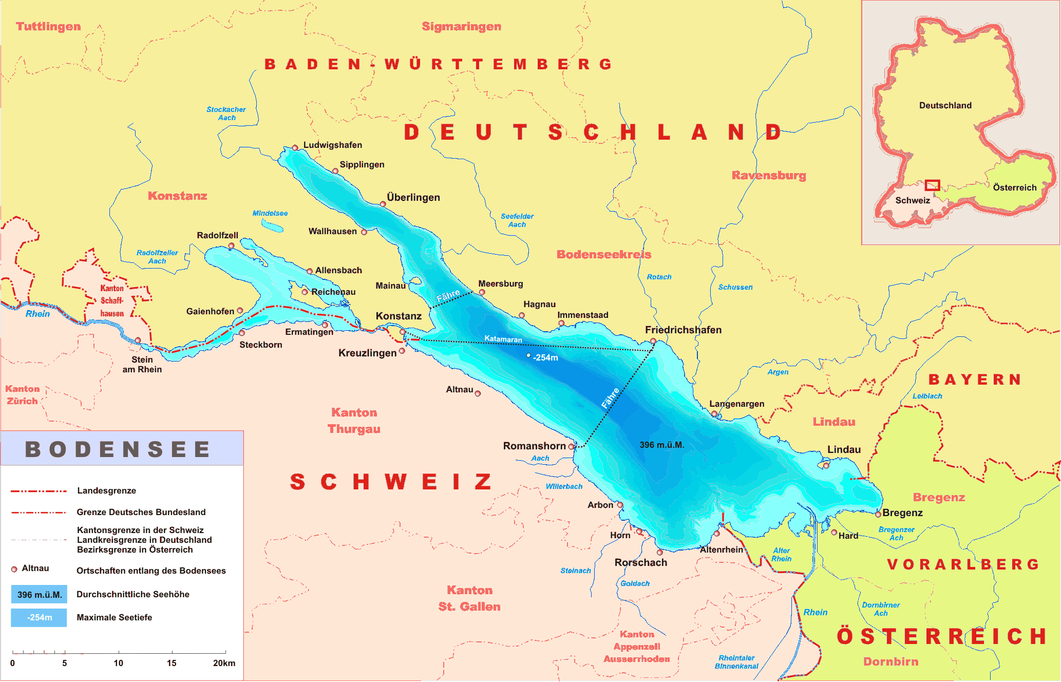 Map of the Lake Constance